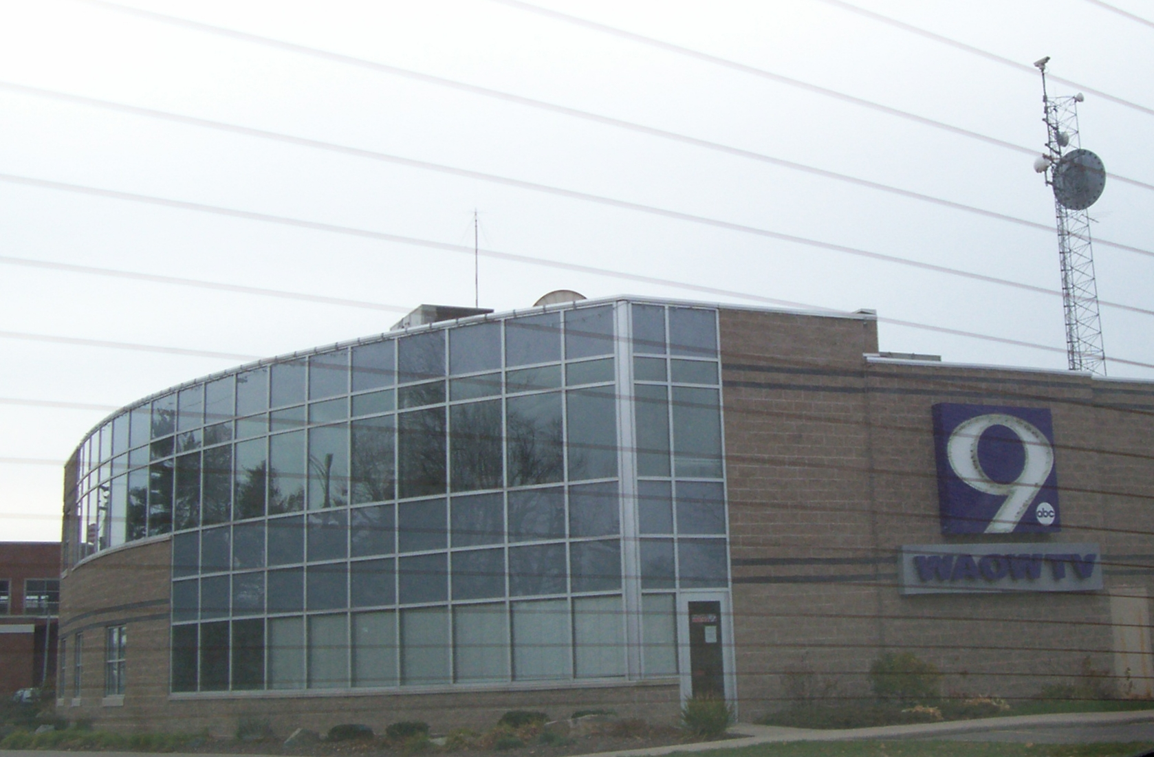 The studios for WAOW-TV 9 in Wausau, Wisconsin, USA.